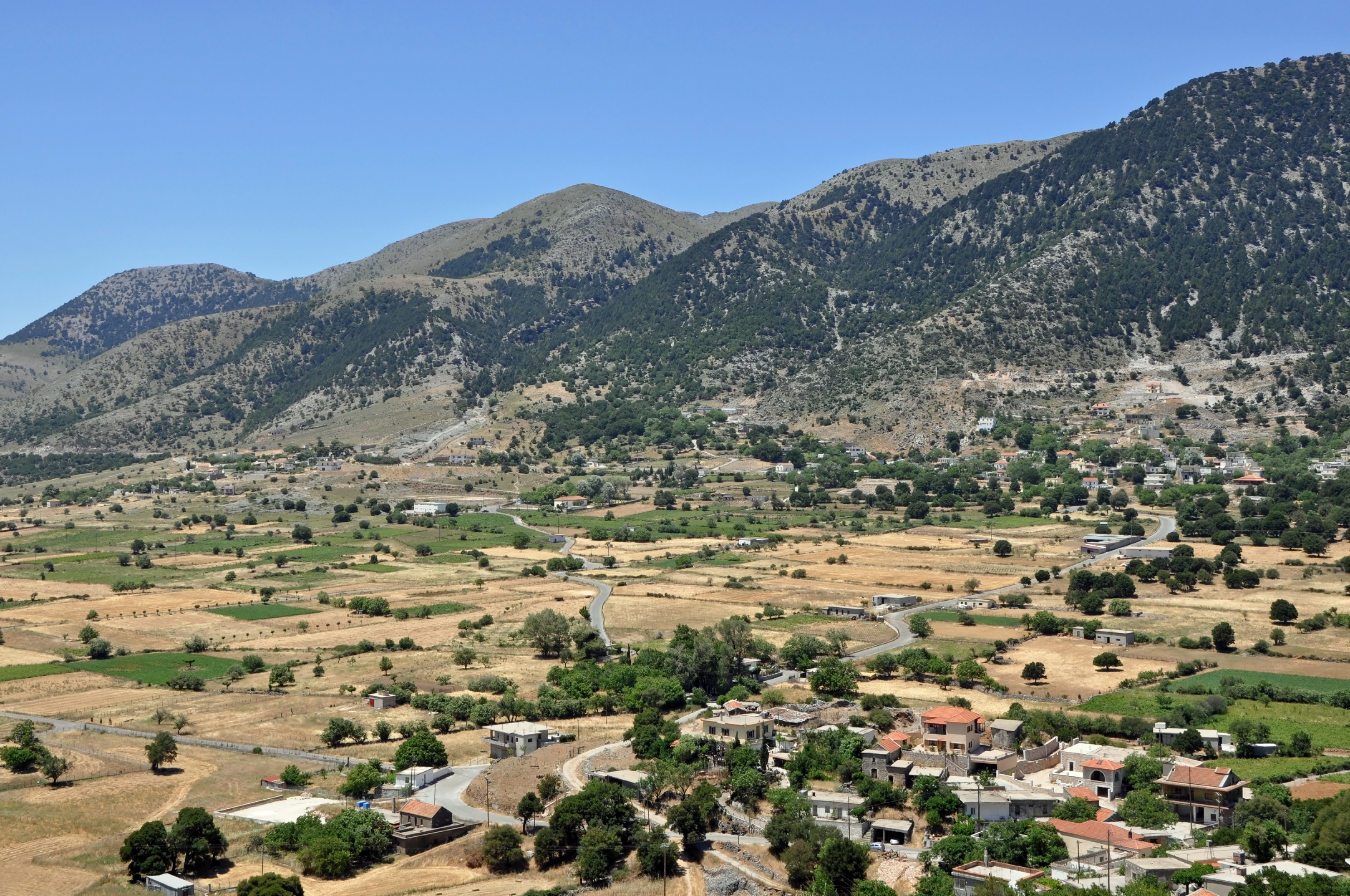 Askifou Plateau on Crete (Greece)